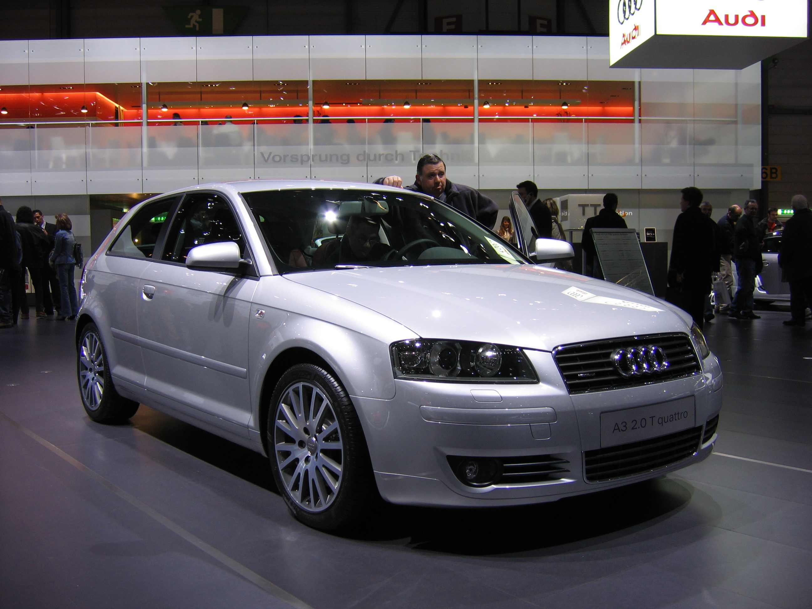 Geneva Motor Show 2005